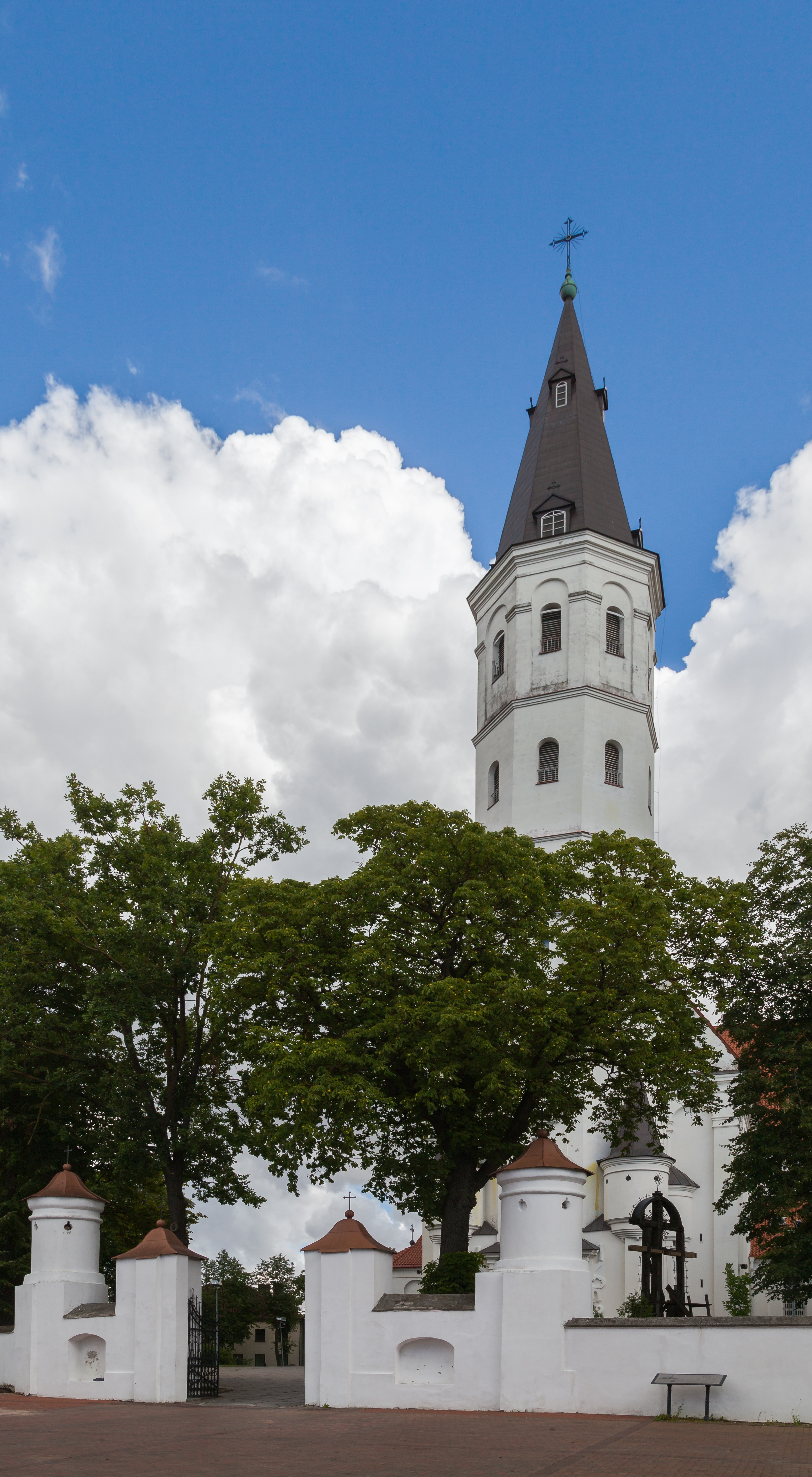 Siauliai Cathedral, Lithuania